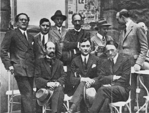 International gathering of musicians. Photograph from an unidentified German-language newspaper. Standing, from left to right: Grzegorz Fitelberg (1879-1953), Karel Boleslav Jirák (1891-1972), Štěpán Chodounsky (1886-1954), Georges-Martin Witkowski (1867-1943), Fritz Reiner (1888-1963), Joseph Szigeti (1892-1973). Seated, from left to right: Albert Roussel (1869-1937), Karol Szymanowski (1882-1937), Arnold Bax (1883-1953).